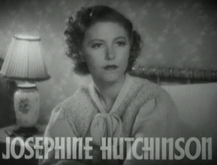 Josephine Hutchinson in I Married a Doctor (1936) (directed by Archie Mayo) - trailer (cropped screenshot)